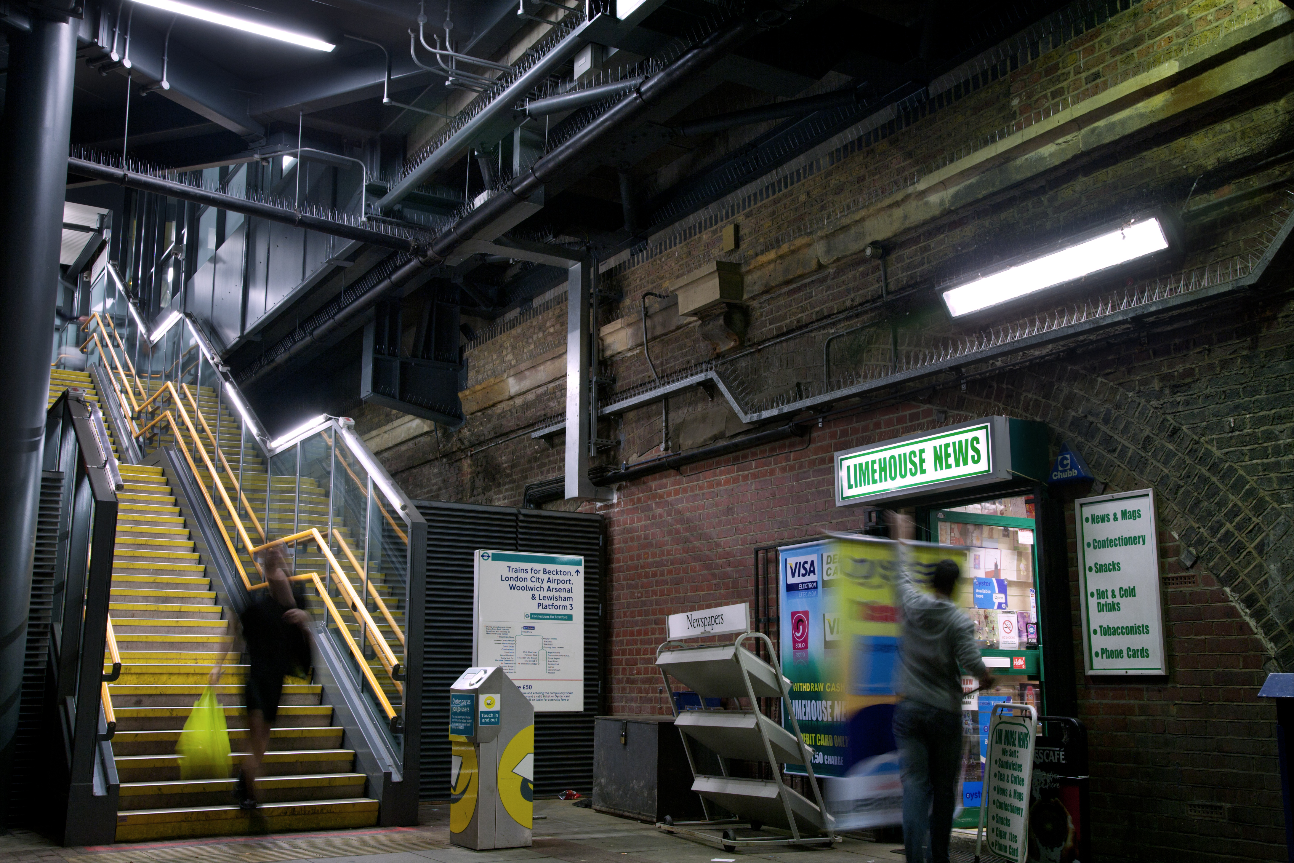 LImehouse Underground Station, London